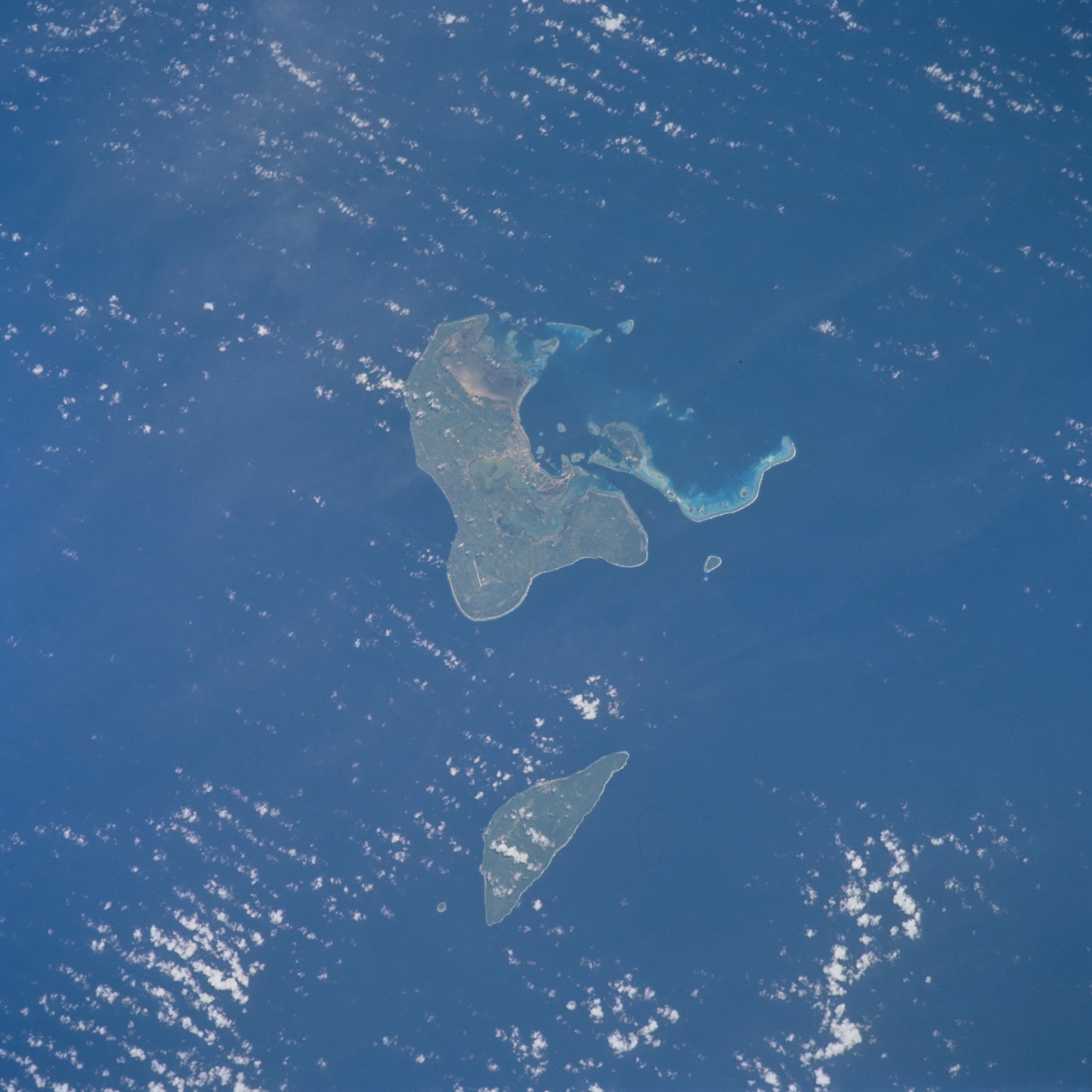 TONGA/TONGATABU & EUA ISLANDS ISS001-701-60 TONGA/TONGATABU & EUA ISLANDS